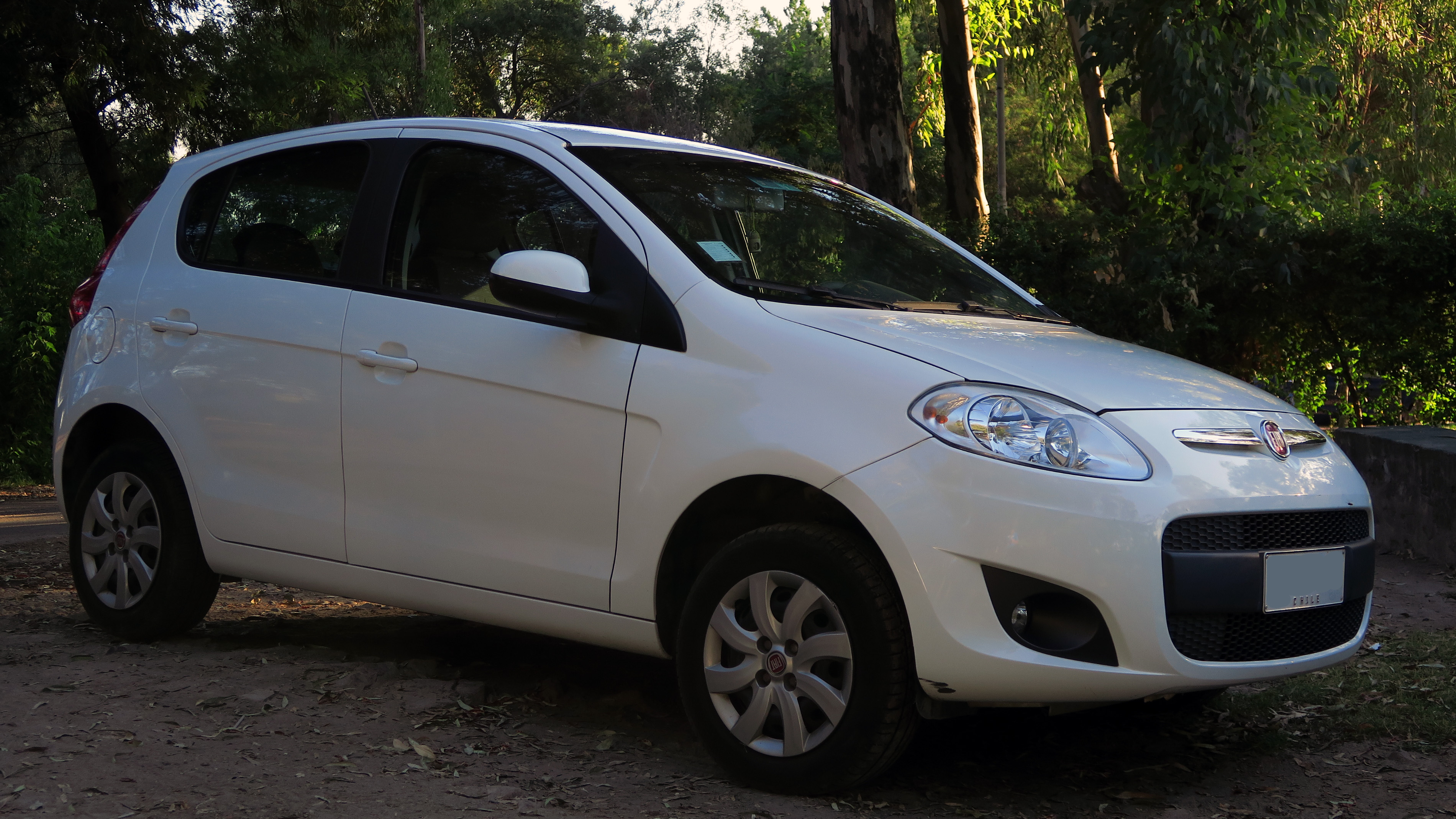 Fiat Palio 1.4 Attractive 2016